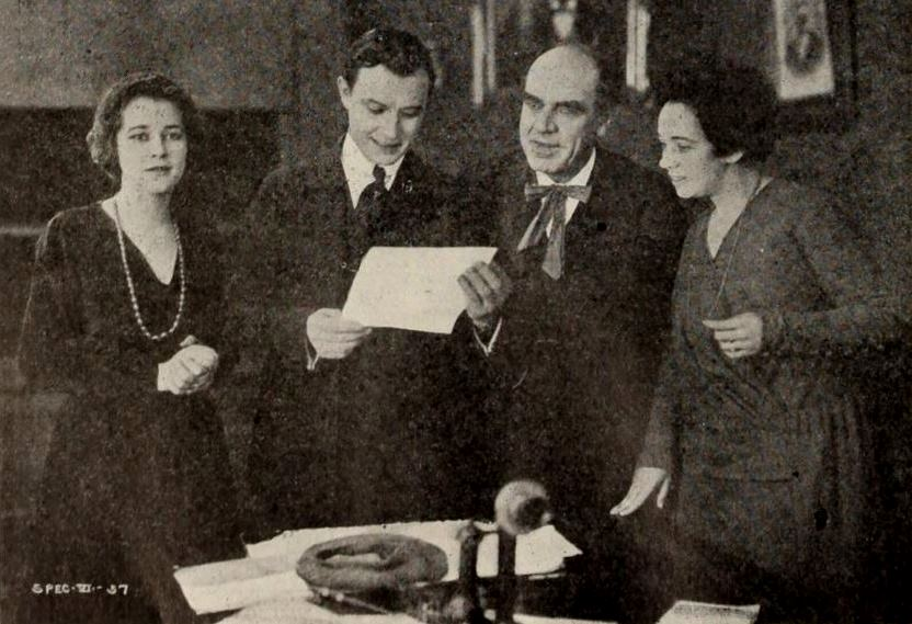 Still from the American drama film Bolshevism on Trial (1919) with Pinna Nesbit, Robert Frazer, Leslie Stowe, and Ethel Wright, on page 24 of the April 5, 1919 Exhibitors Herald.